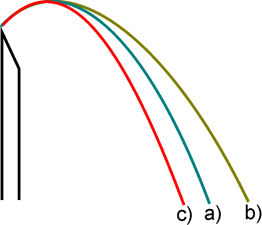 ogee spillway - shapes